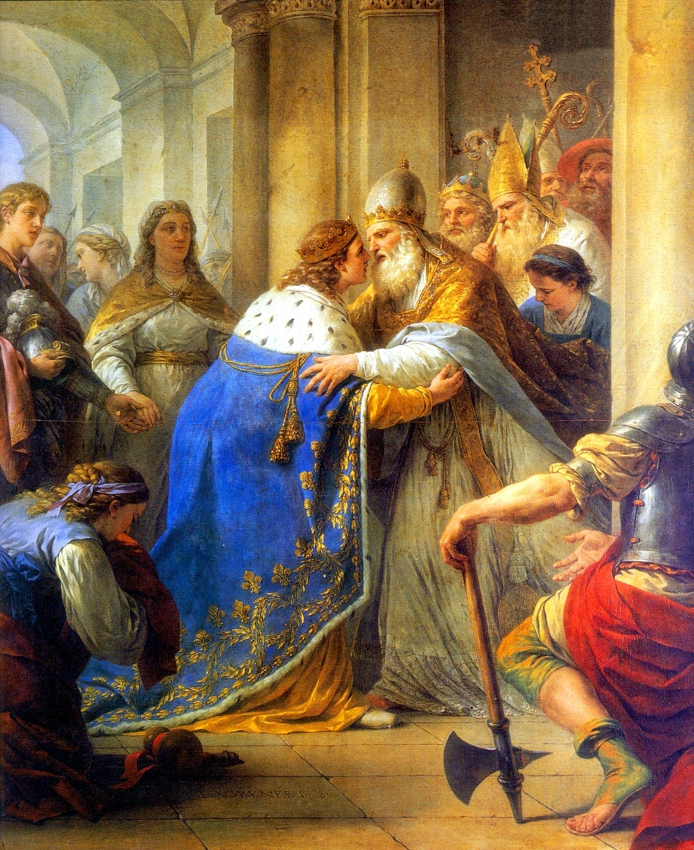 Entrevue de Saint Louis, roi de France, et du pape Innocent IV, a Lyon, en 1248